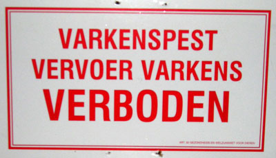 Classical swine fever prohibition to transport pigs (The Netherlands)